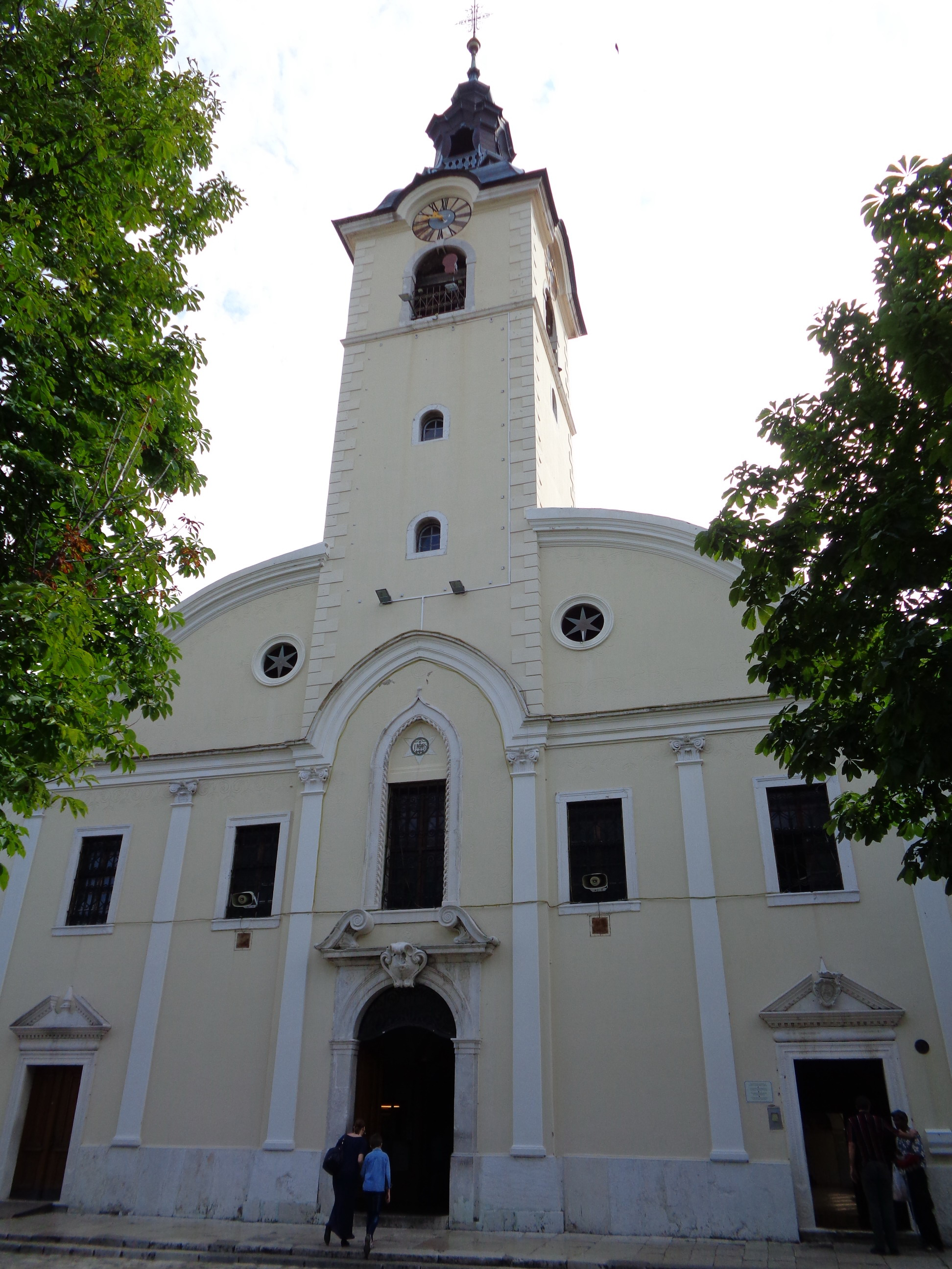 Frontage of the Church of Our Lady of Trsat, Rijeka, Croatia